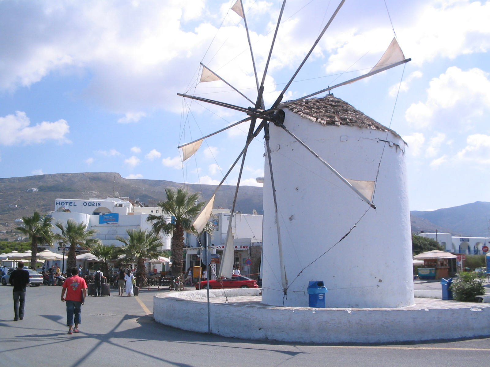 Paros windmill